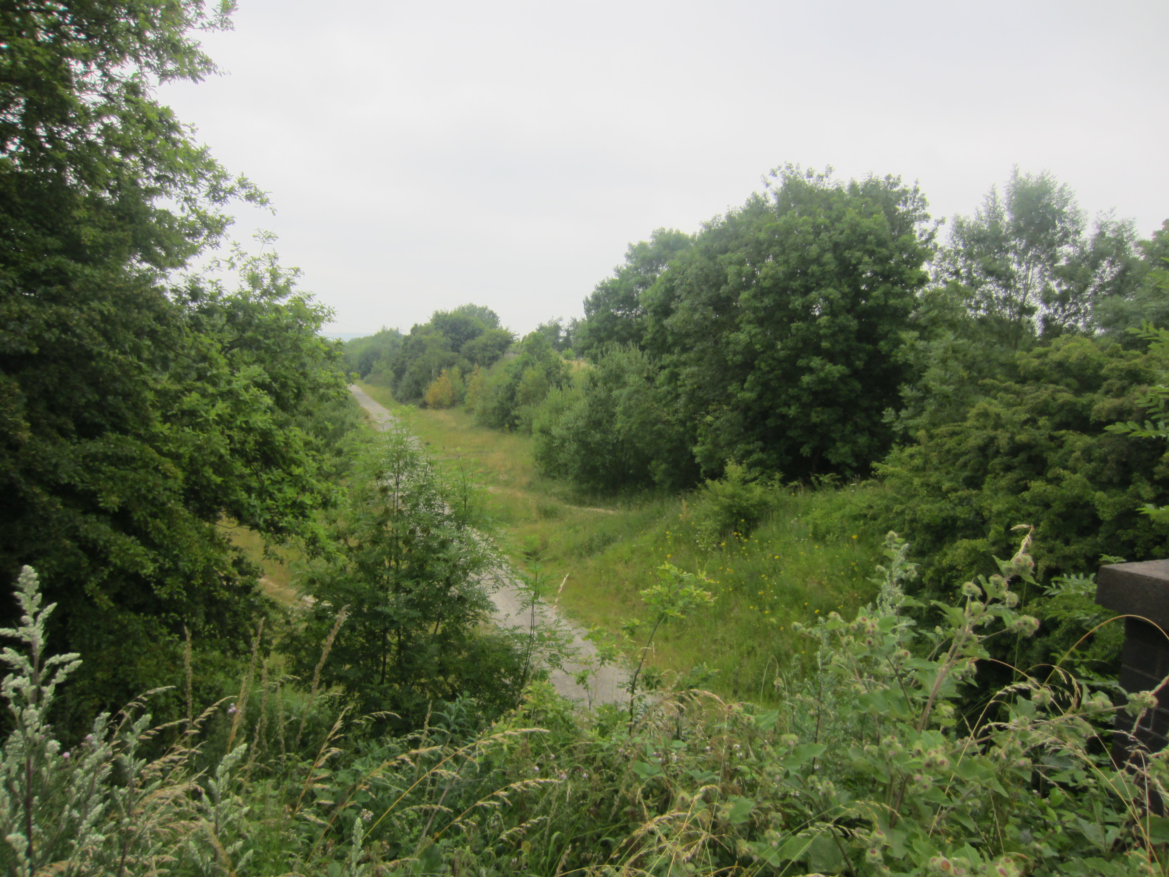 Taken from A632 road overbridge west of Arkwright Town, Derbyshire, England on 20 July 2013, facing north east. The image shows the location of the former Duckmanton South Junction, part of the Duckmanton Junction complex. The alignment approximates to a 1950s photograph accompanying the Duckmanton Junction article in Wikipedia.